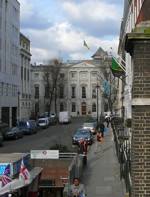 Stratford Place seen from Oxford Street. The image was taken with a Panasonic Lumix DMC-TZ1.